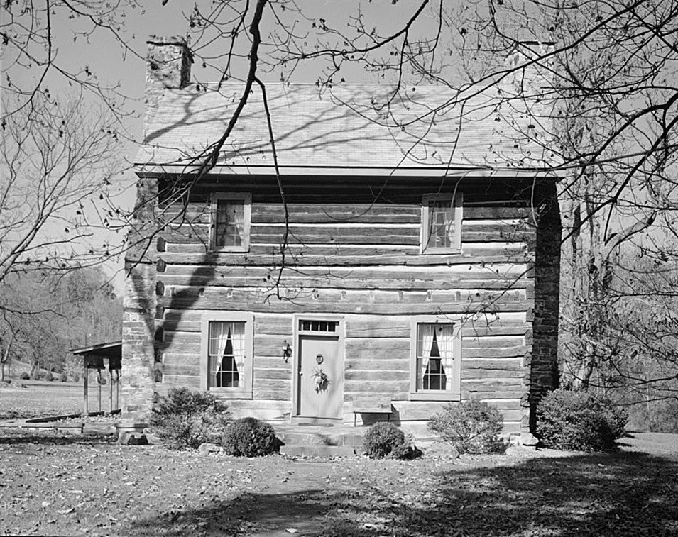 Southwest front of the Col. James Graham House, located along West Virginia Route 3 near Lowell in Summers County, West Virginia, United States. The house is listed on the National Register of Historic Places.